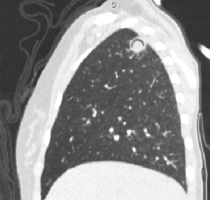 Sagittal reformat from a CT scan of the chest, performed on a 14 year-old female with acute myeloblastic leukaemia. The image shows a rounded cavity in the apical right upper lobe, with a non-dependant soft-tissue nodule within it. There is some subtle ground-glass opacity surrounding the lesion. There were several other similar lesions in the right lung (not shown).